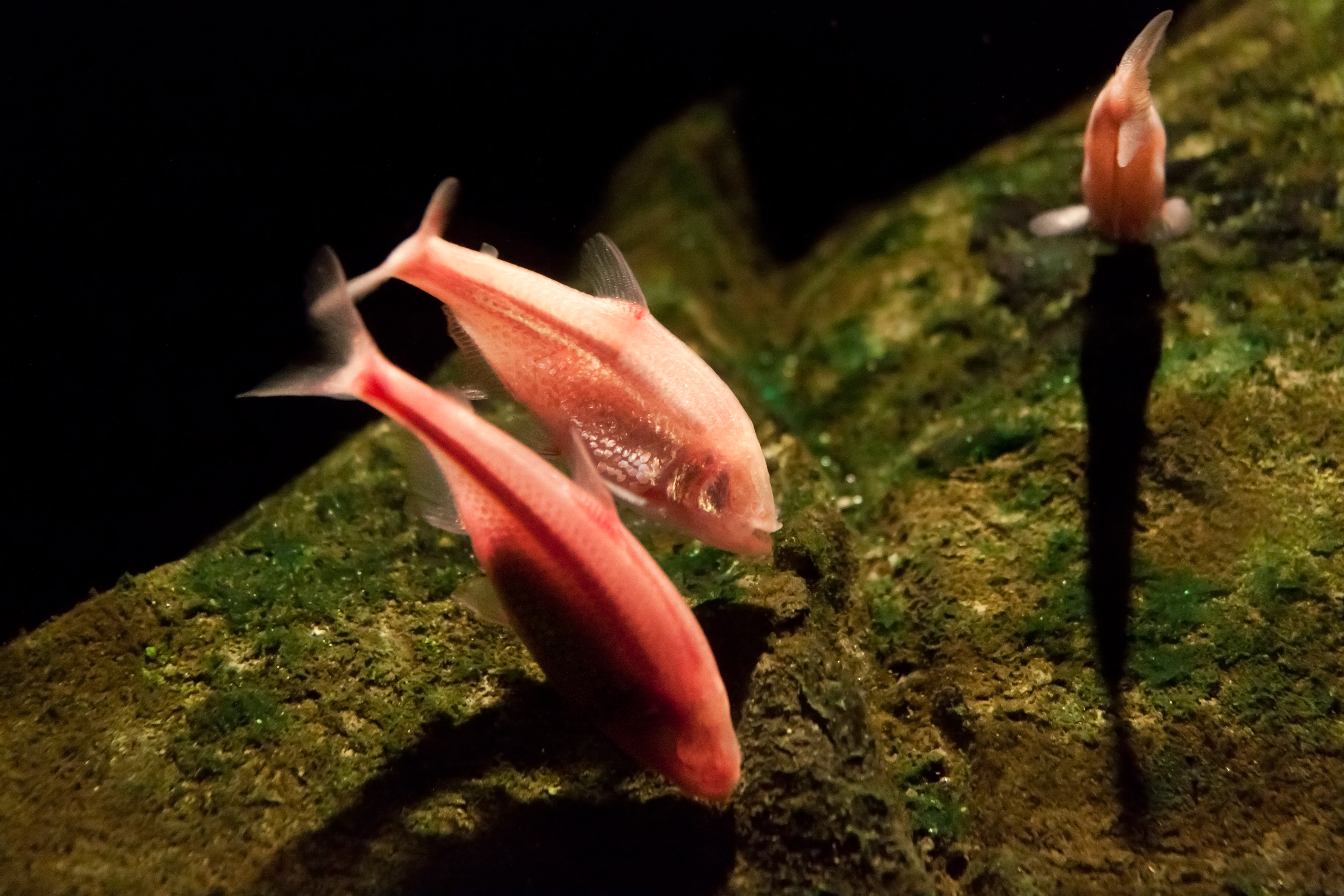 Some blind cave tetra, also known as Mexican tetra (Astyanax mexicanus) living in the zoo of Rostock.